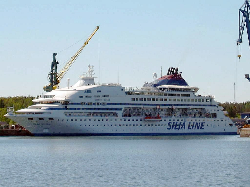 Silja Opera at Turku Repair Yard, Naantali, Finland